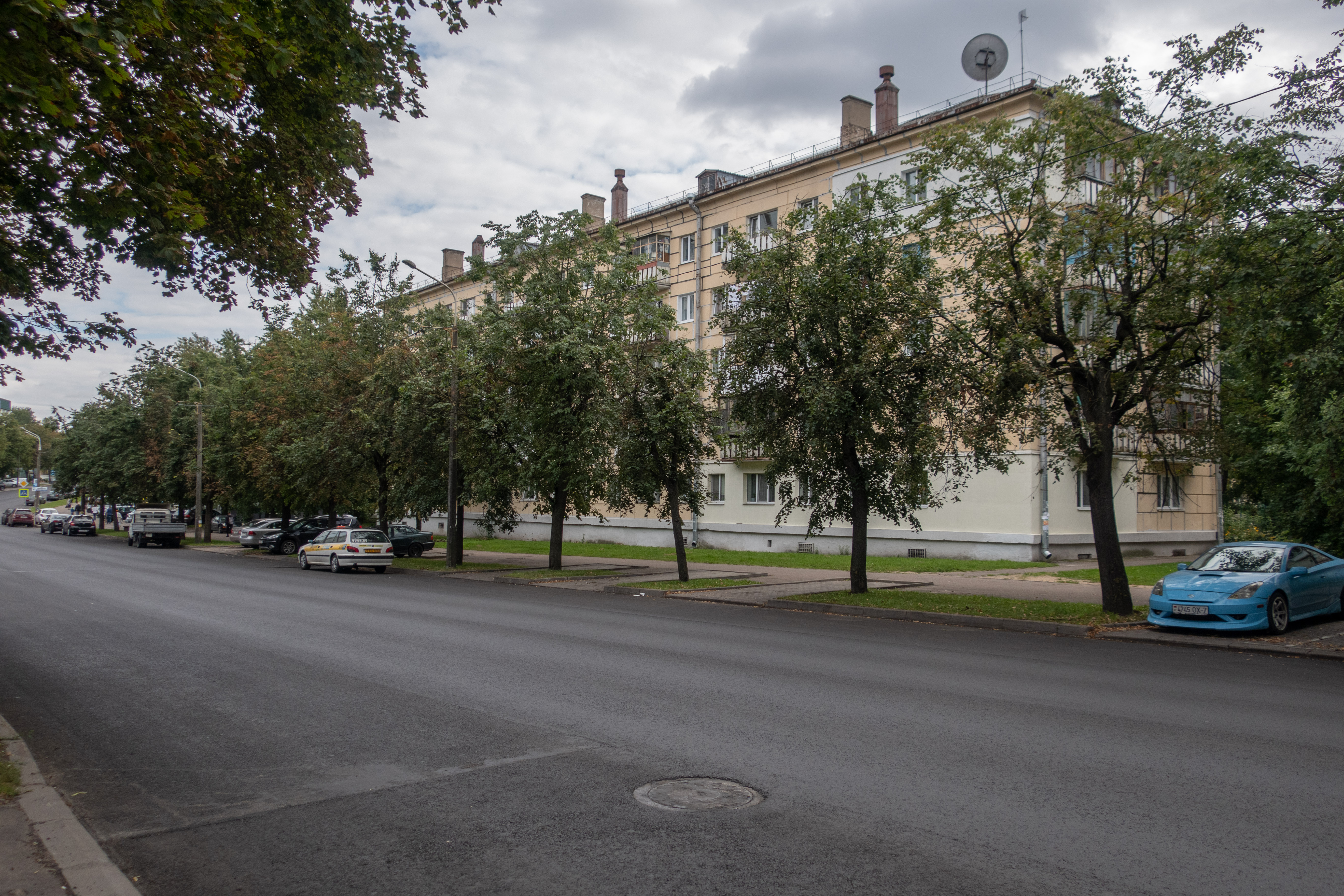 17 Valhahradskaja street. Minsk, Belarus